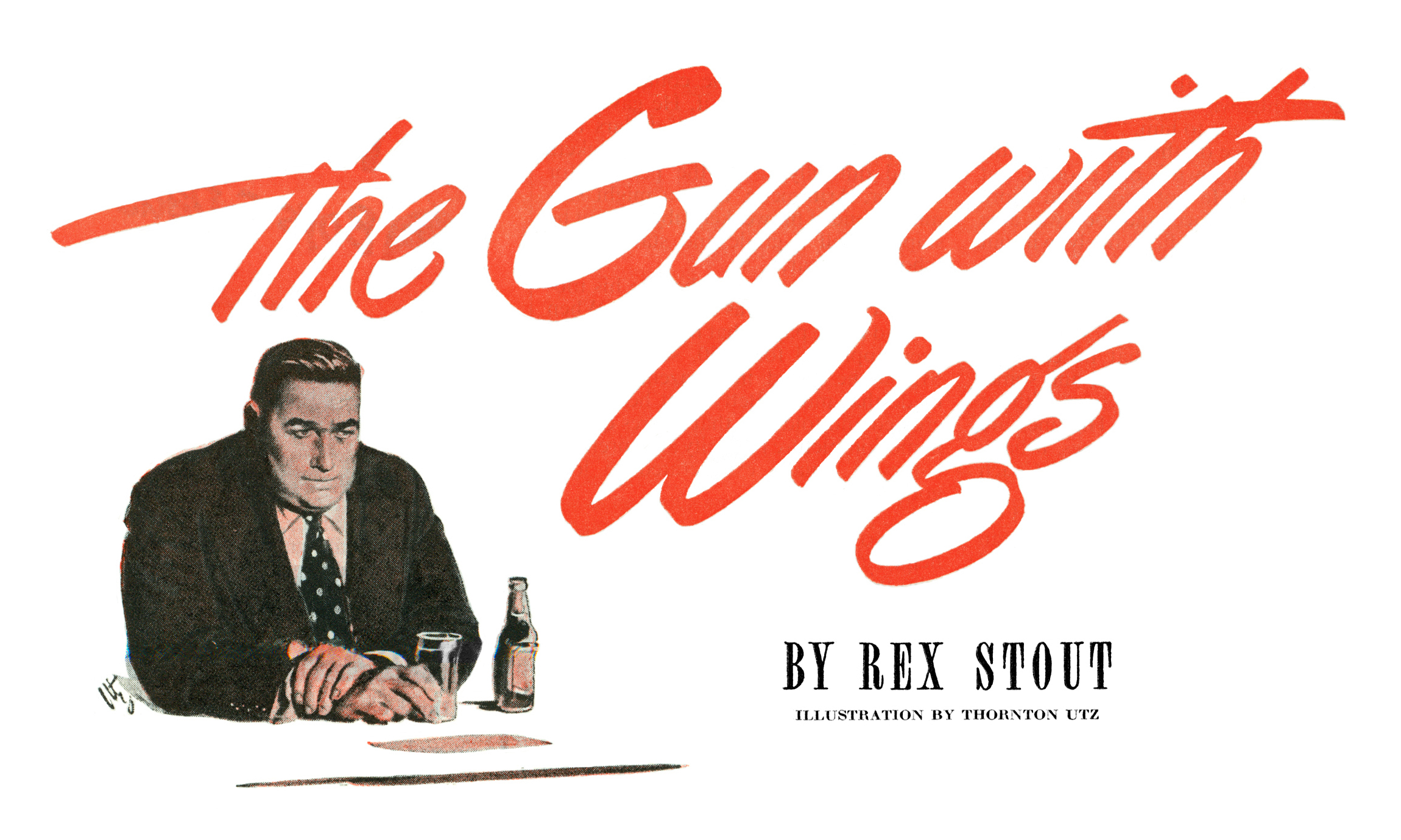 Title illustration from The American Magazine printing of "The Gun with Wings", the first appearance of the Nero Wolfe short story by Rex Stout